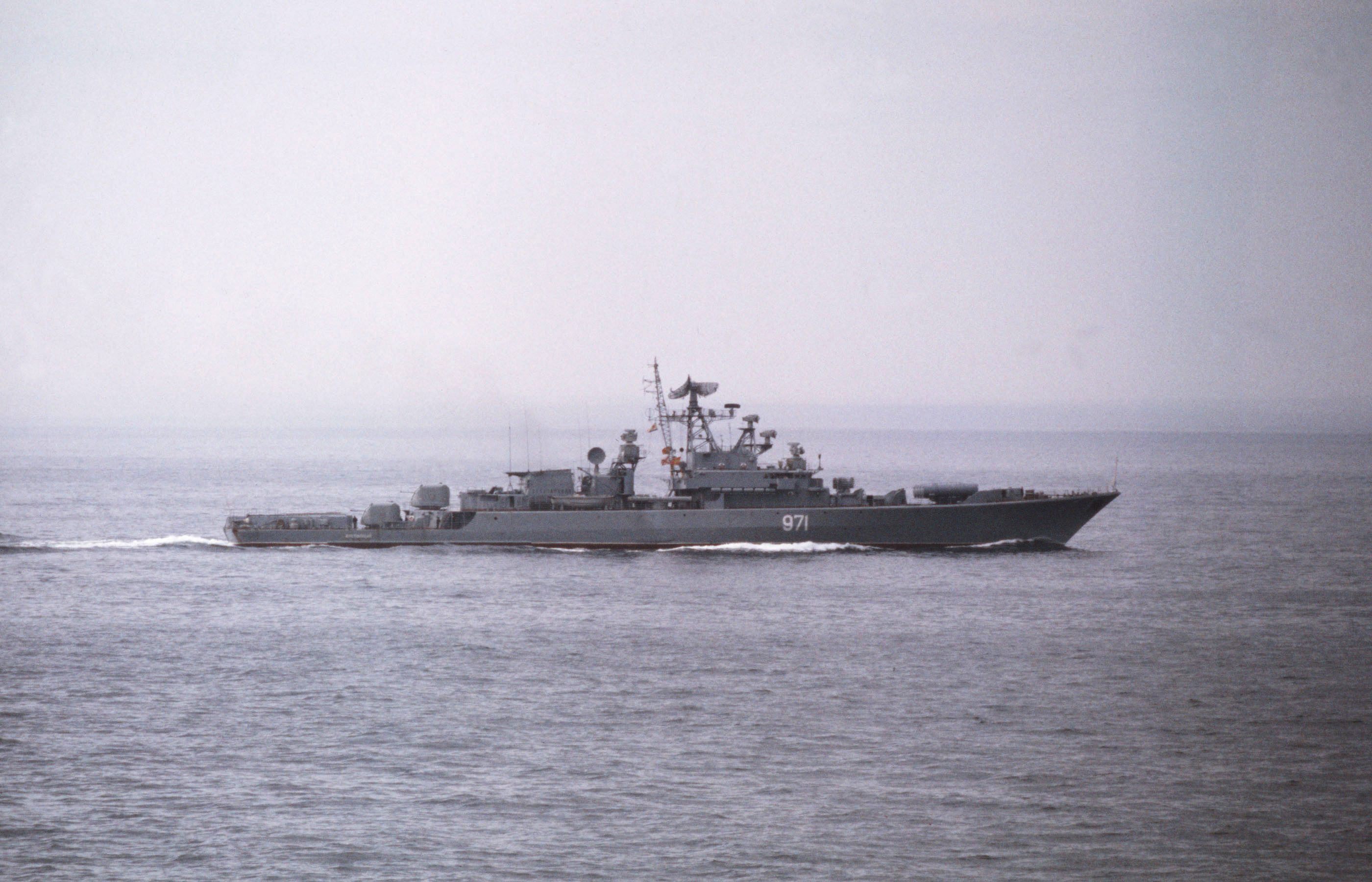 A starboard beam view of the Soviet "Krivak I" class guided missile frigate 971 (FFG 971) underway.